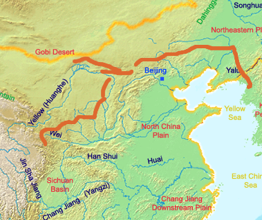 A map of the great wall of china of Qin Dynasty. The red lines indicate the Qin era wall. The yellow line indicates the current border of China.